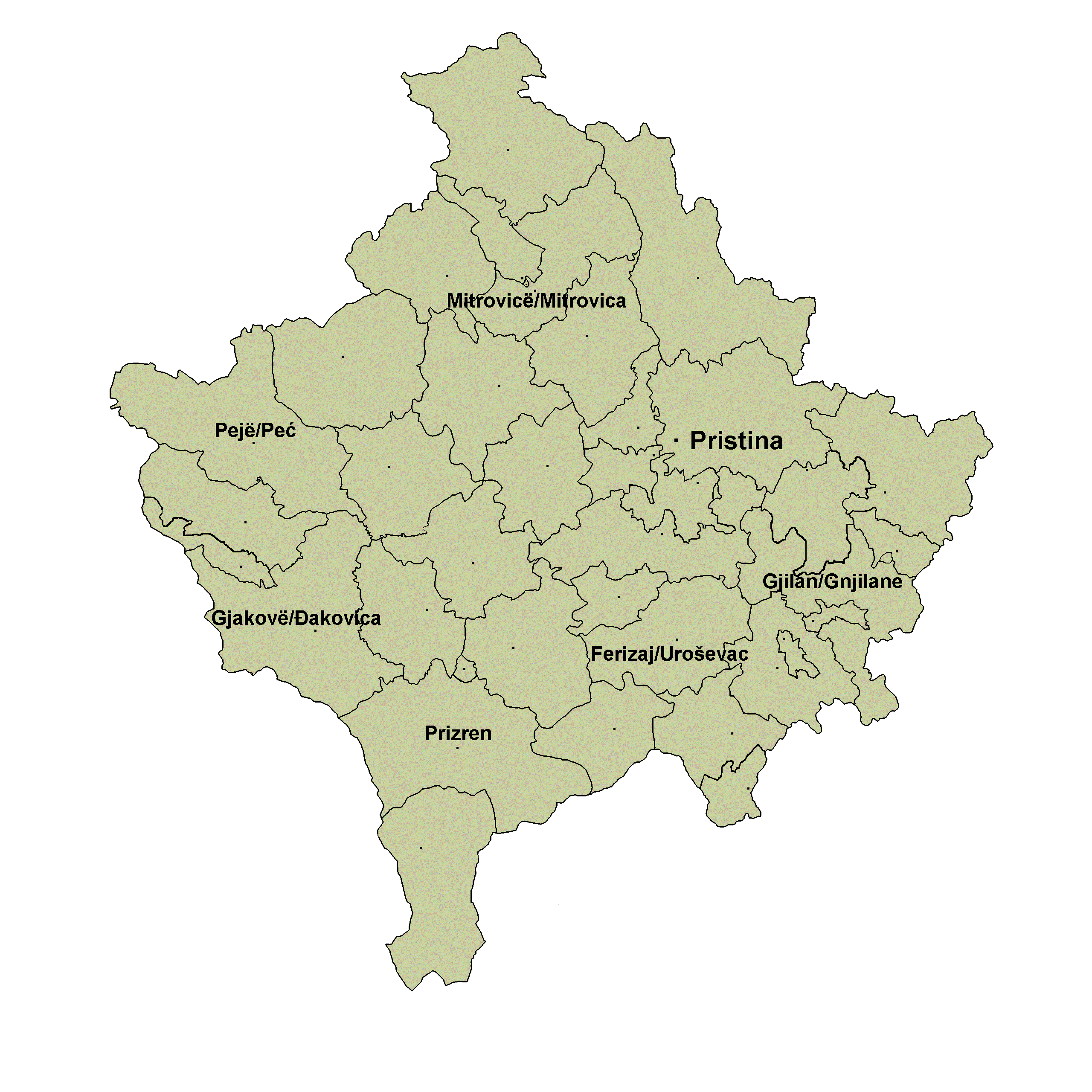 Major cities in KosovoShqip: Qytetet e Kosoves